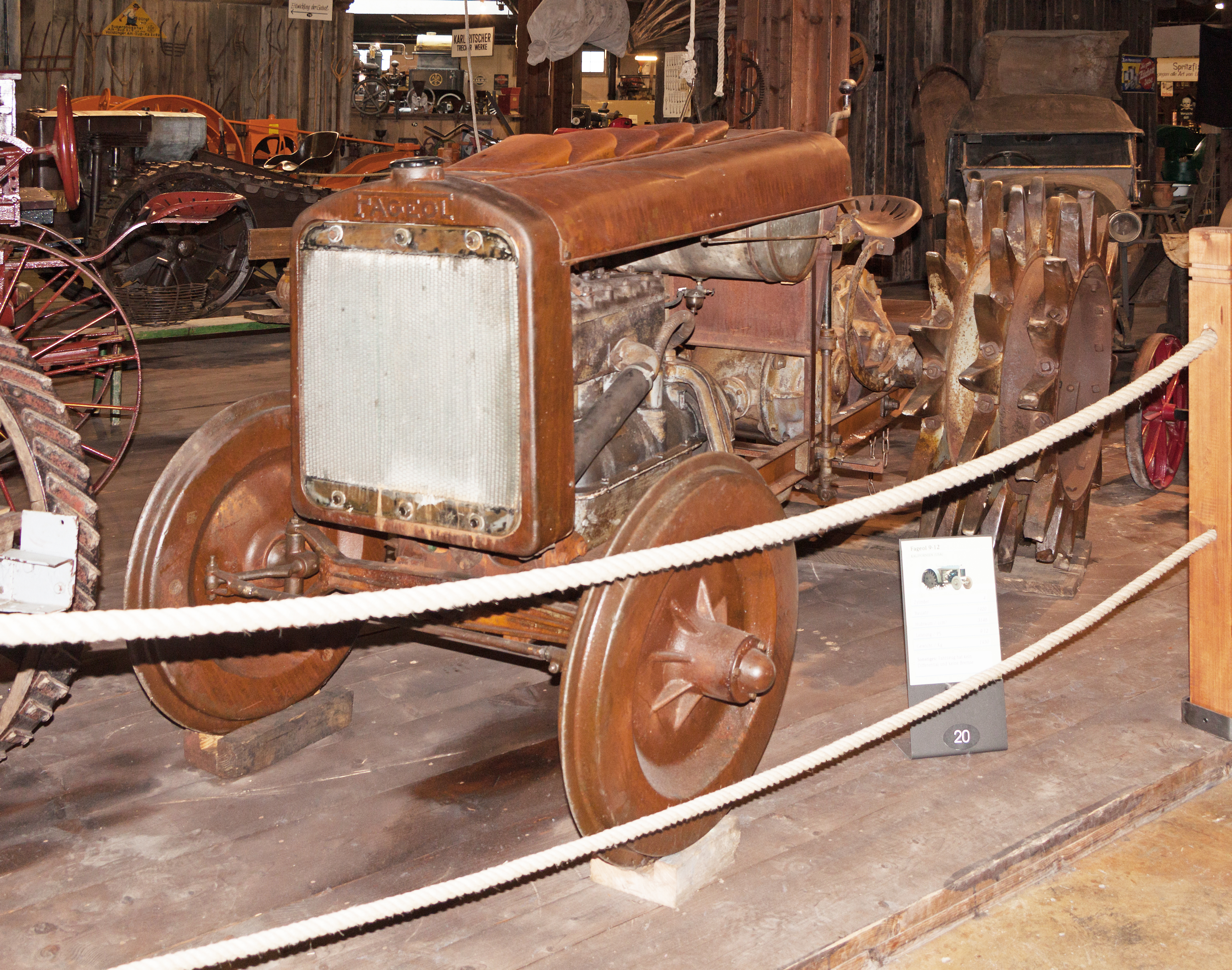 Fageol 9-12, Fageol Motors, Oakland, California, USA, 1920.Cylinder: 4 Engine displacement: 3146 ccmHP: 9-12Weight: 1930 kg Traktormuseum Bodensee, Gebhardsweiler, Uhldingen-Mühlhofen,Germany